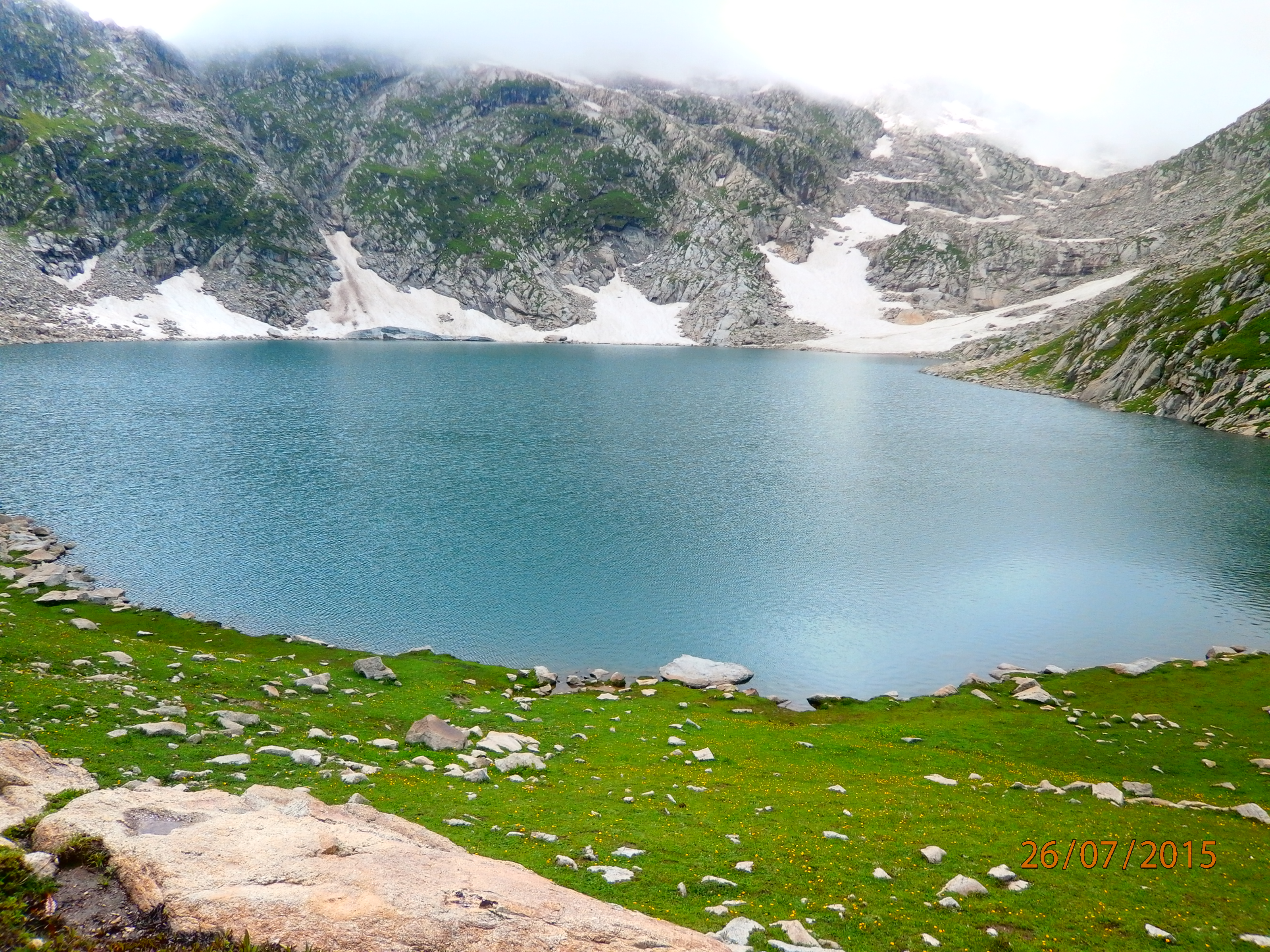 Saidgai Lake. Pic by Abdul Wahab